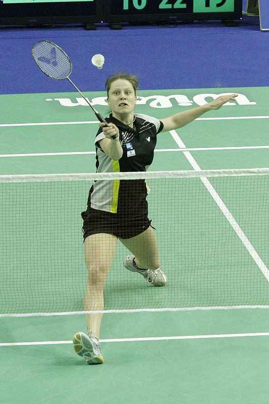 Juliane Schenk, Wilson Swiss Open 2010